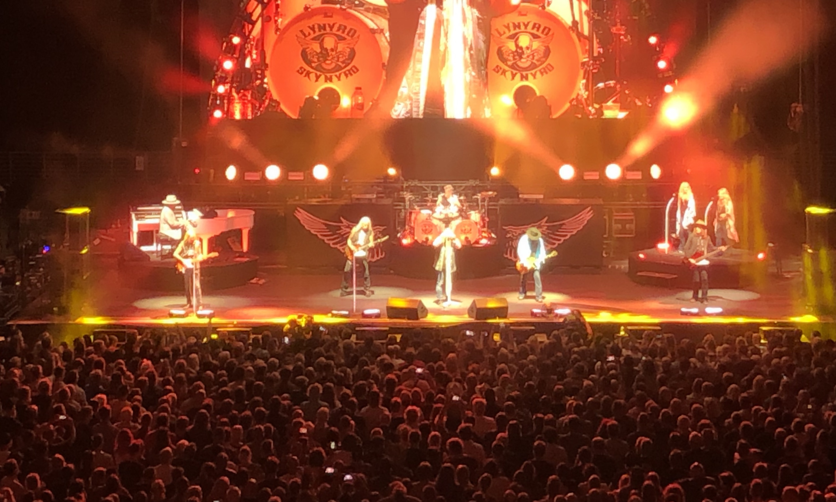 „Last of the Street Survivors“-Tour, 2019-06-17